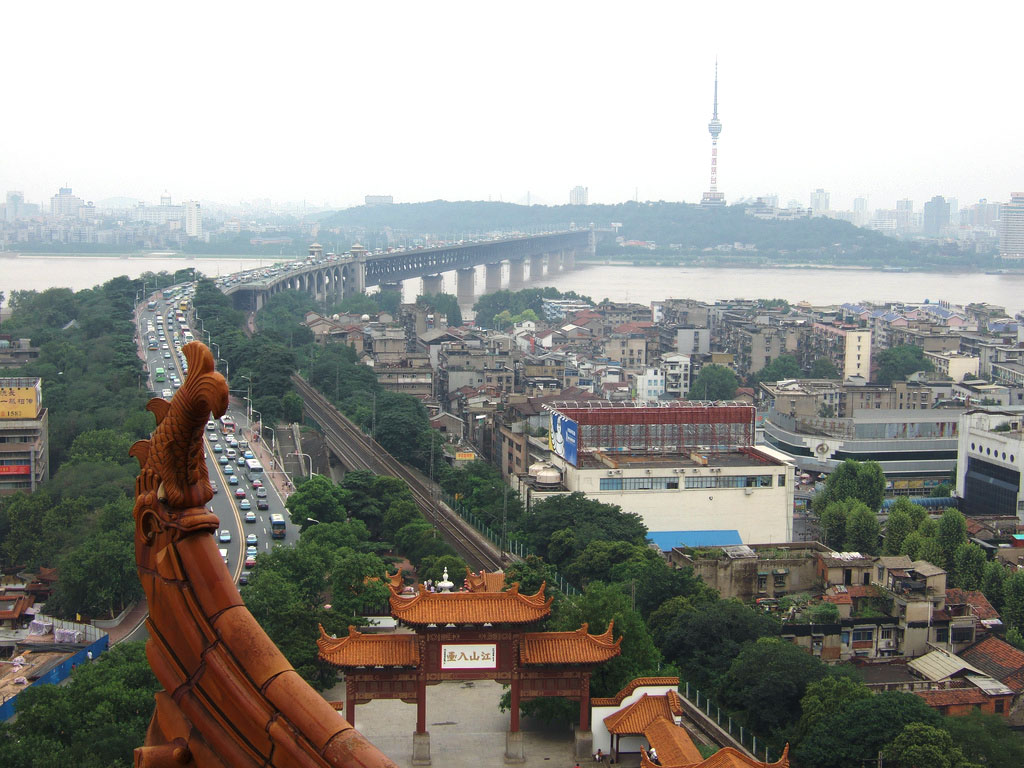 View of Wuhan in Hubei, China from the Yellow Crane Tower